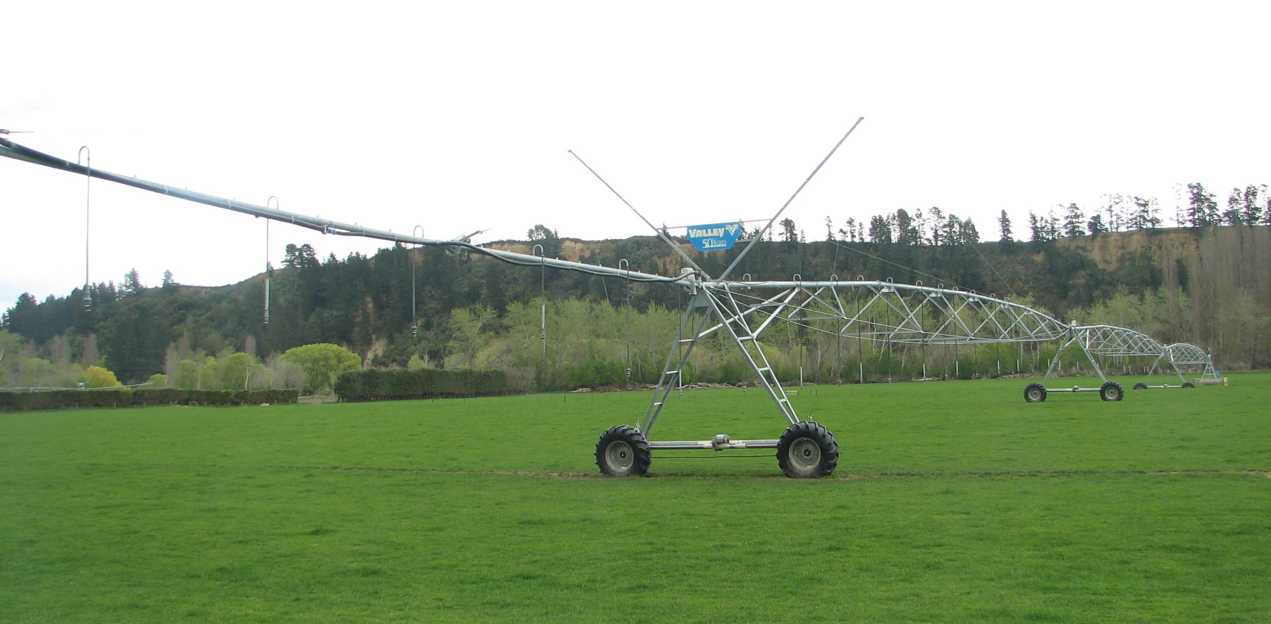 Centre pivot irrigator in Canterbury, New Zealand.